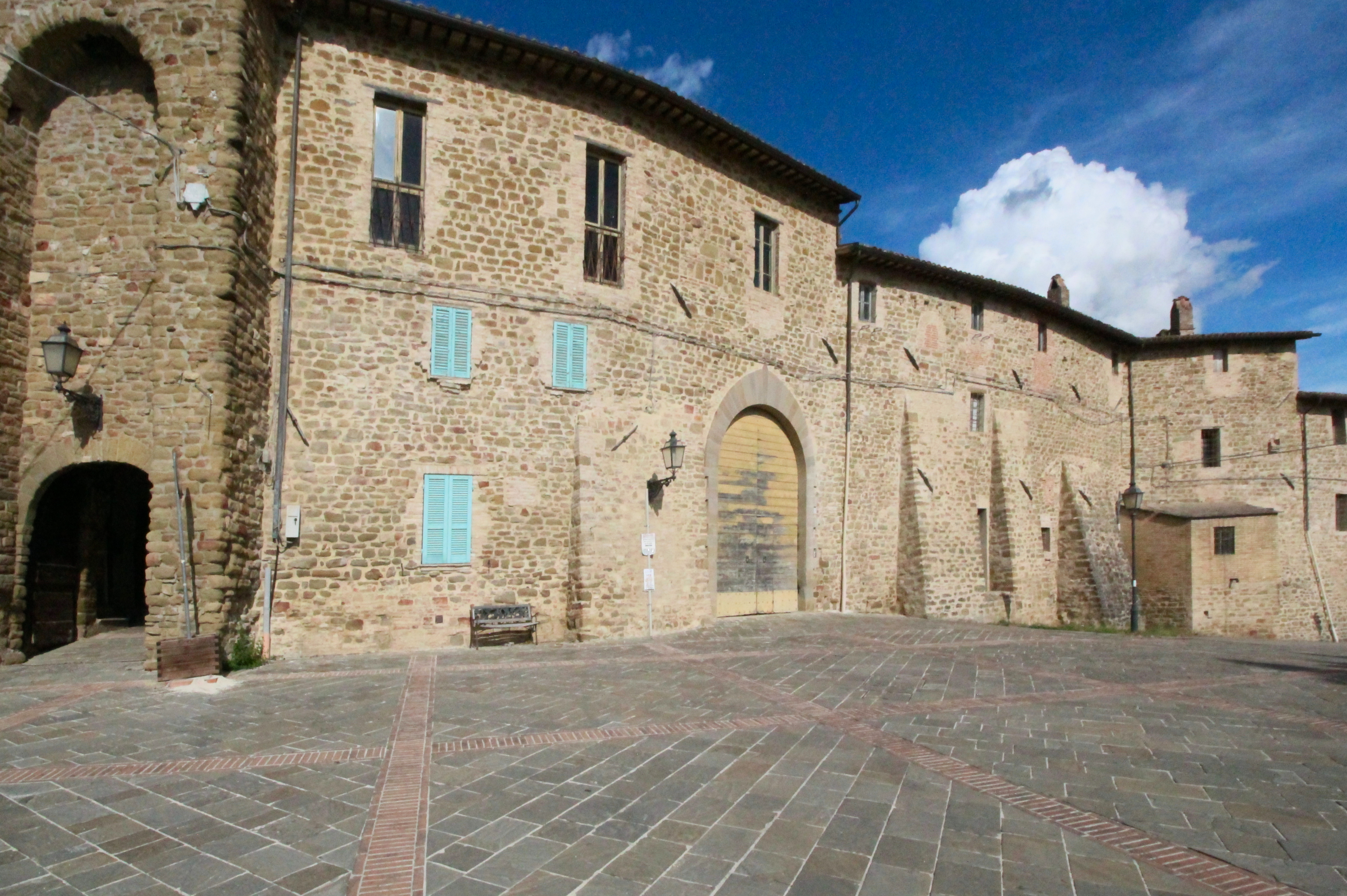 Sterpeto (Castello di Sterpeto, Contea di Sterpeto), hamlet of Assisi, Province of Perugia, Umbria, Italy